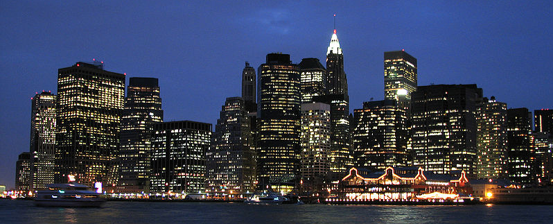 Lower Manhattan at late dusk.